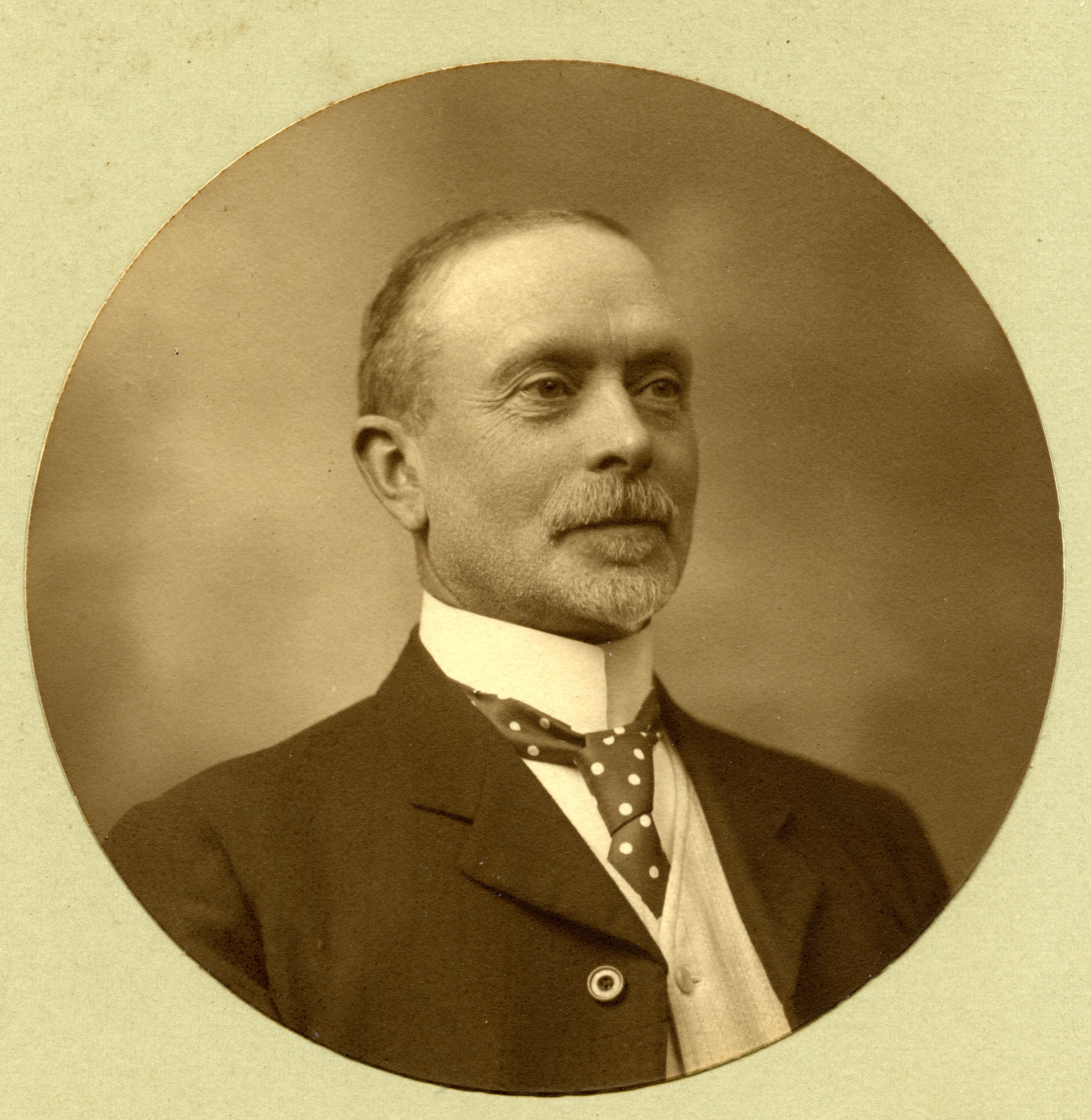 Scan of portrait photograph